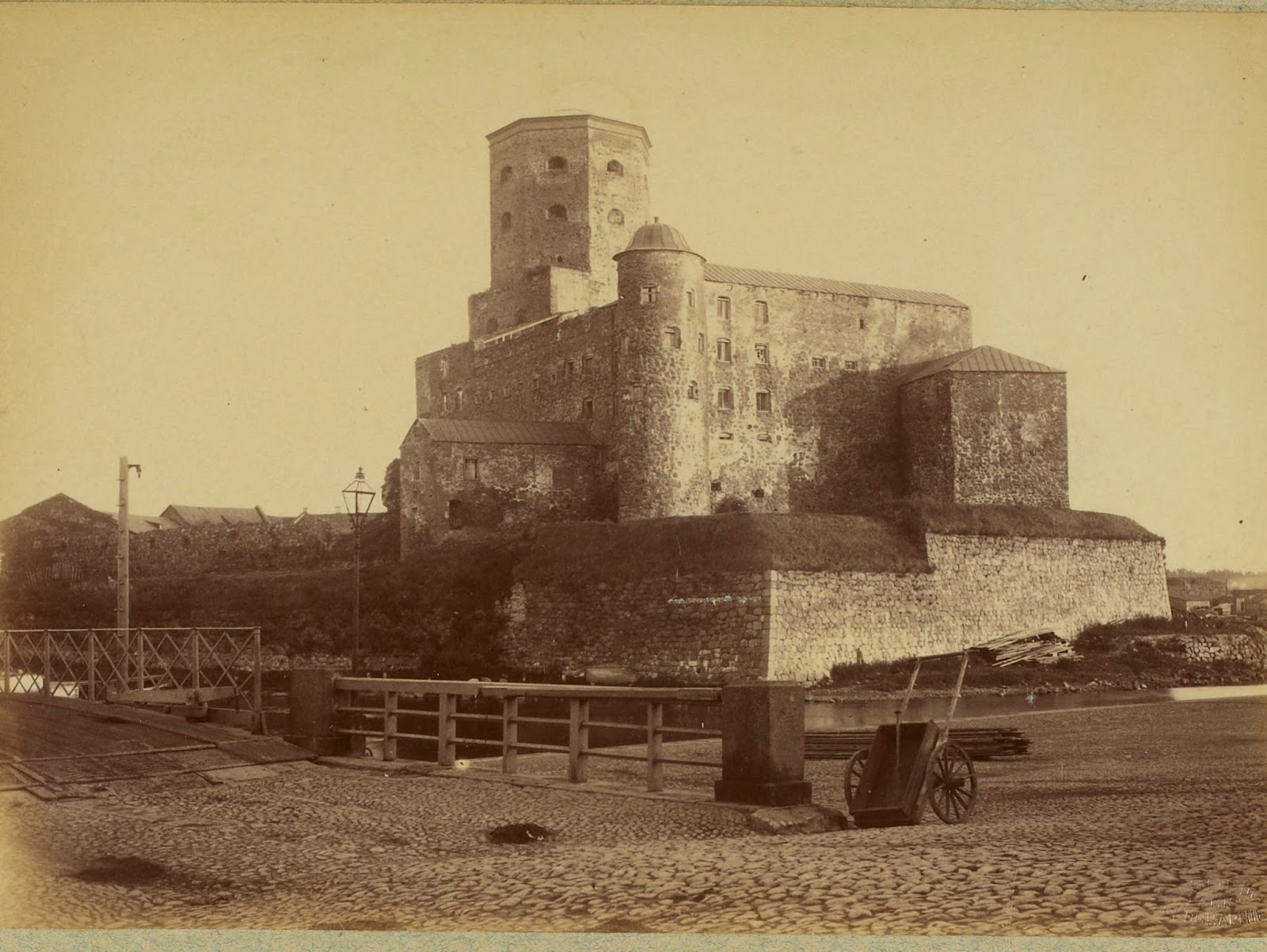 Photo taken by Georges de La Sablièren in 1885 from the Castle of Wiborg.